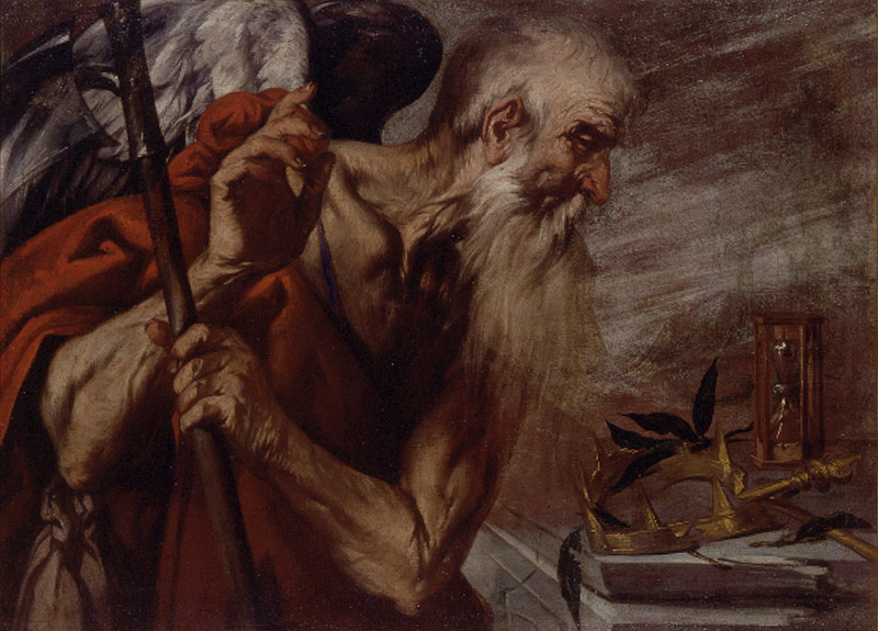 Allegory of Time